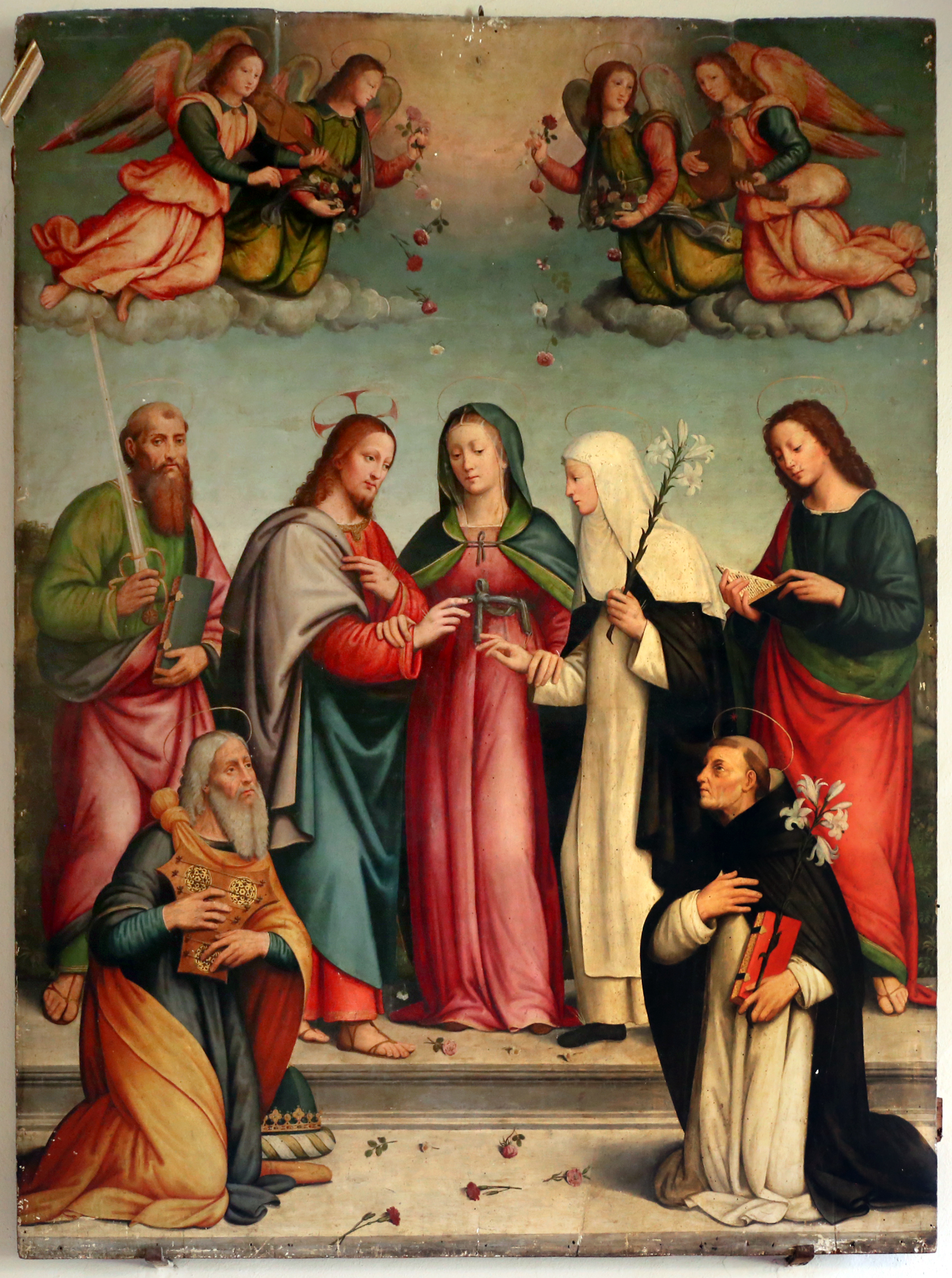 San Niccolò (Prato) - New Refectory